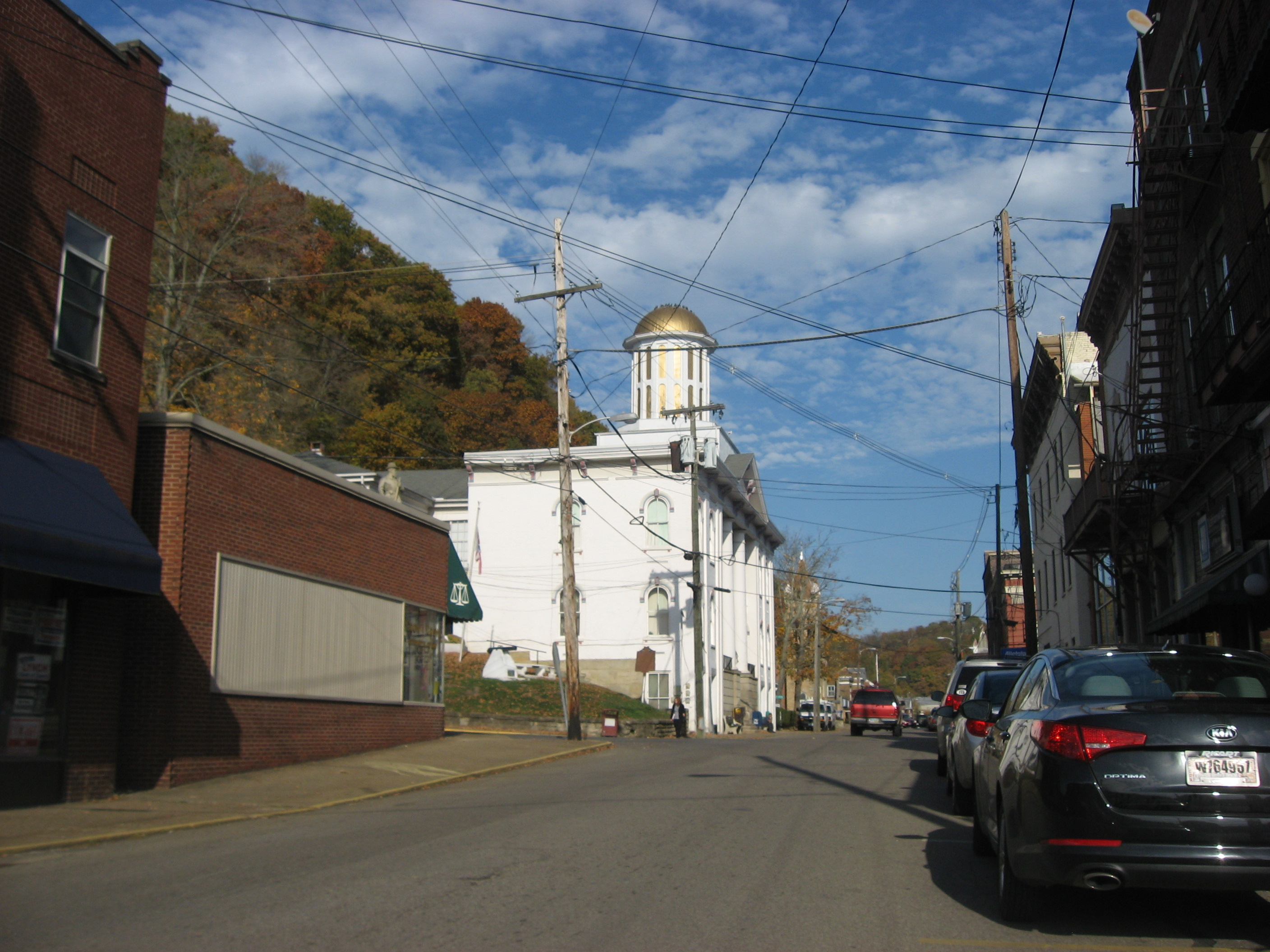 Looking eastward on Second Street from the Mechanic Street intersection in Pomeroy, Ohio, United States. Note the Meigs County Courthouse in the distance; it was built in 1848. This portion of Second is part of the Pomeroy Historic District, a historic district that is listed on the National Register of Historic Places.